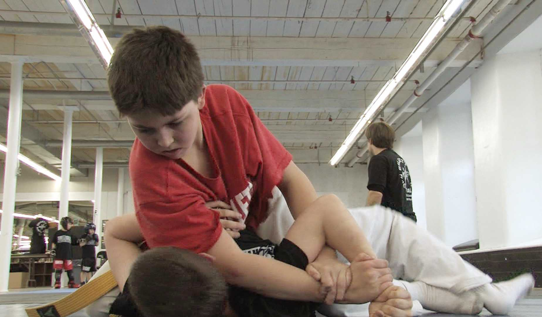 Boys rolling in grappling class, the boy in red attempts a key-lock.